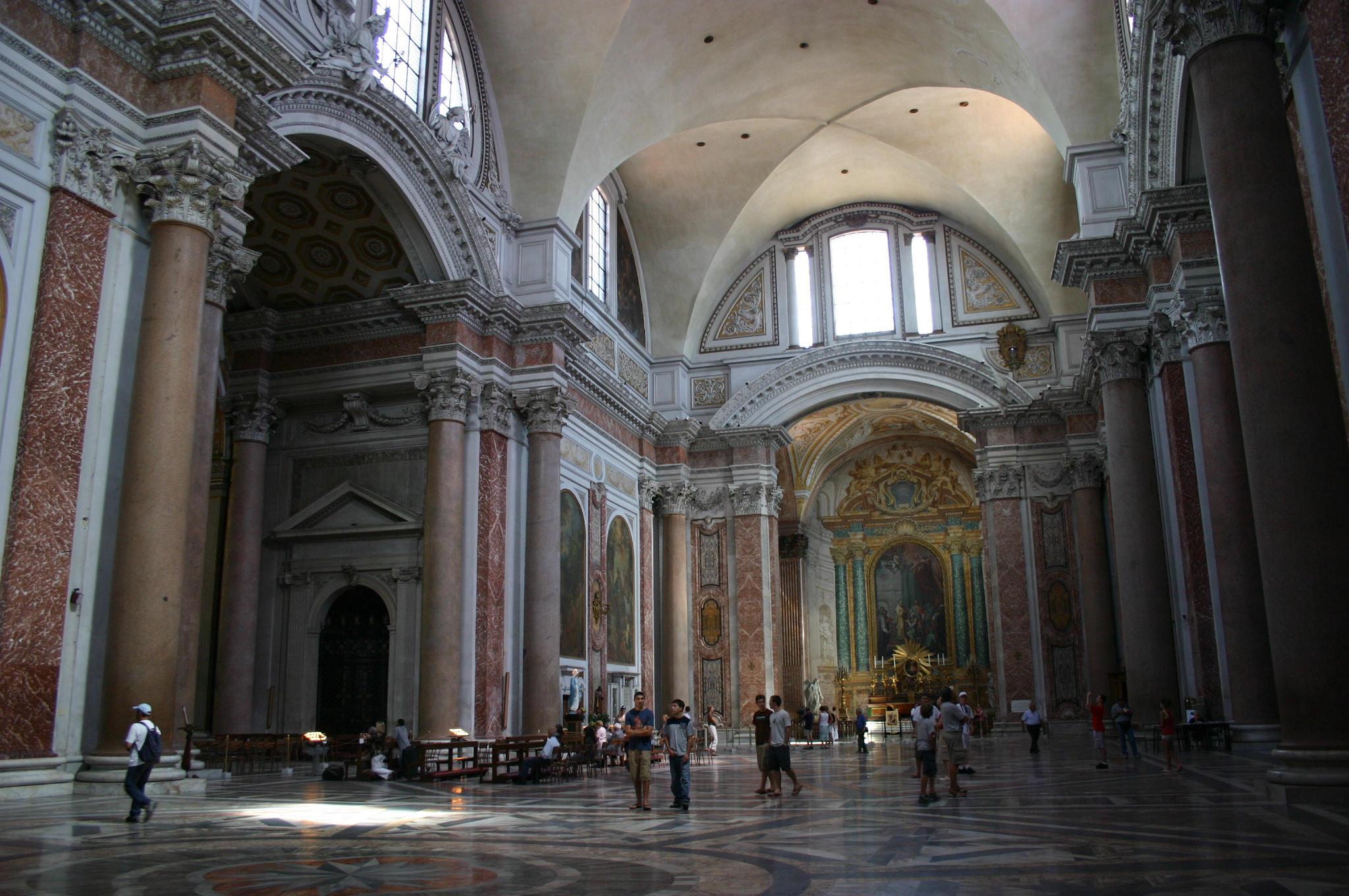 Santa Maria degli Angeli in Rome, Italy: inside view. In the background, the Albergati chapel. Picture by Giovanni Dall'Orto, June 17 2007.